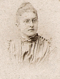 Mathilde Sutermeister Pauls Sutermeister wife